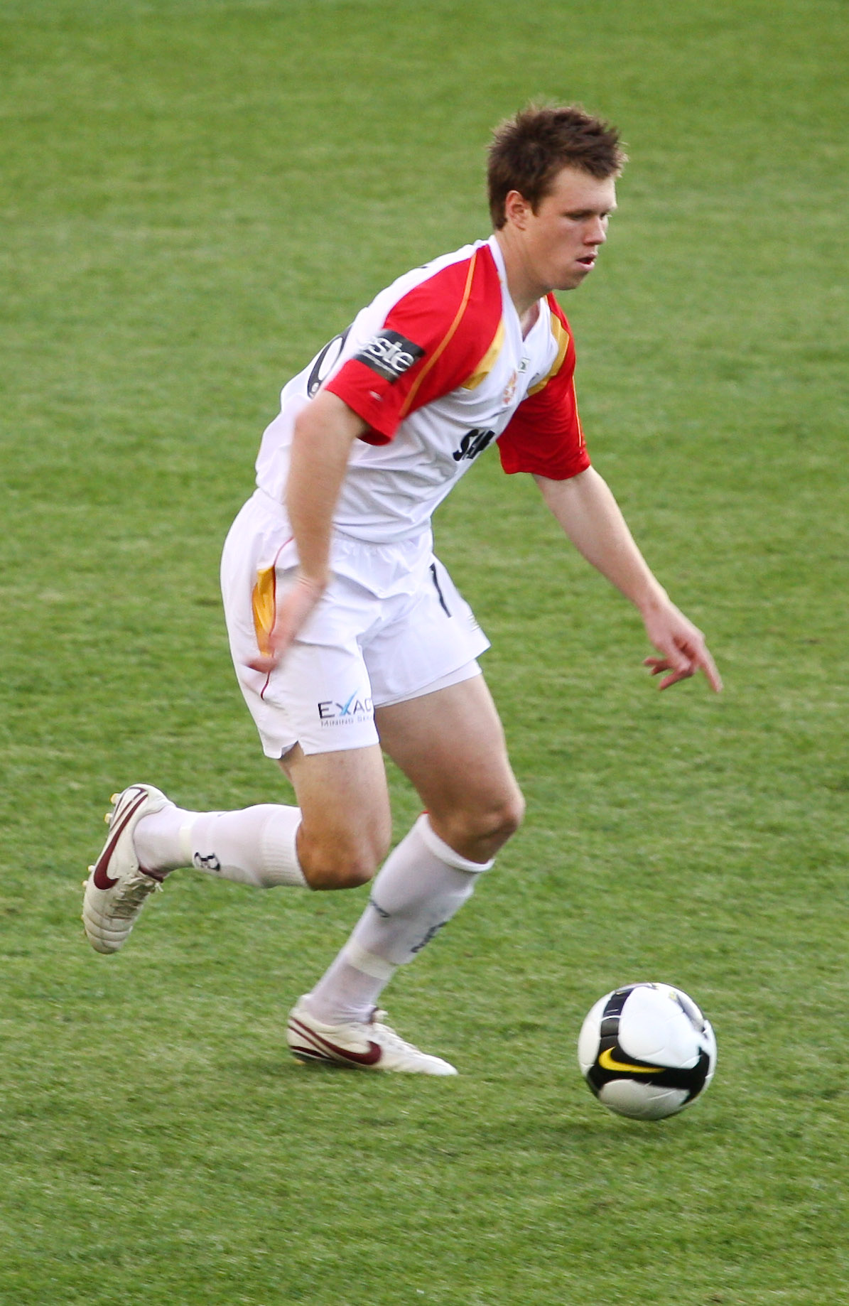 Daniel Mullen playing against Sydney FC at the Sydney Football Stadium in the A-League round 5.